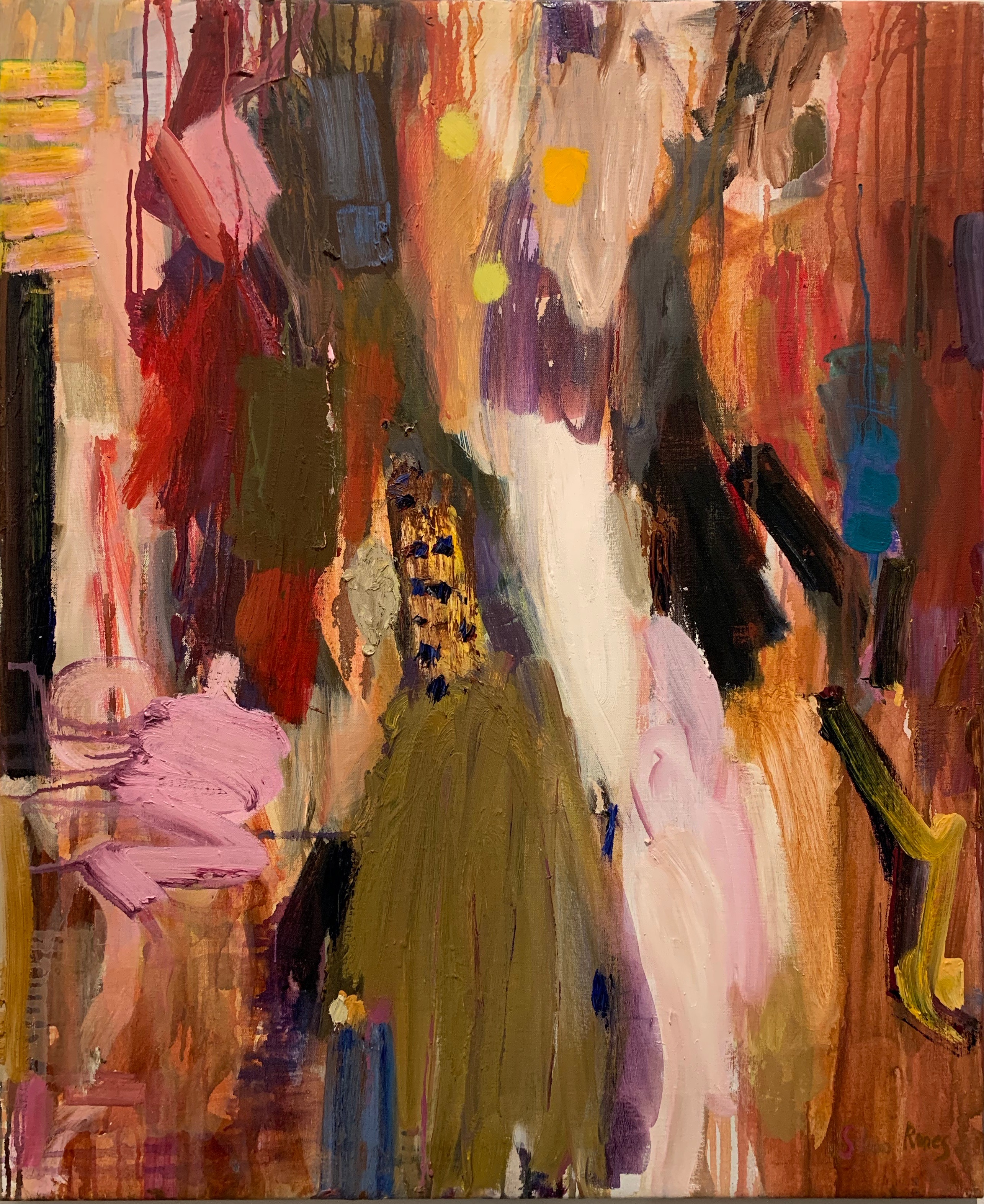 «Song» Painting by the Norwegian artist Solrunn Rones. Oil on canvas. 85 x 75 cm